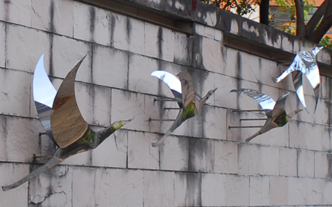 Flying birds of LSSH